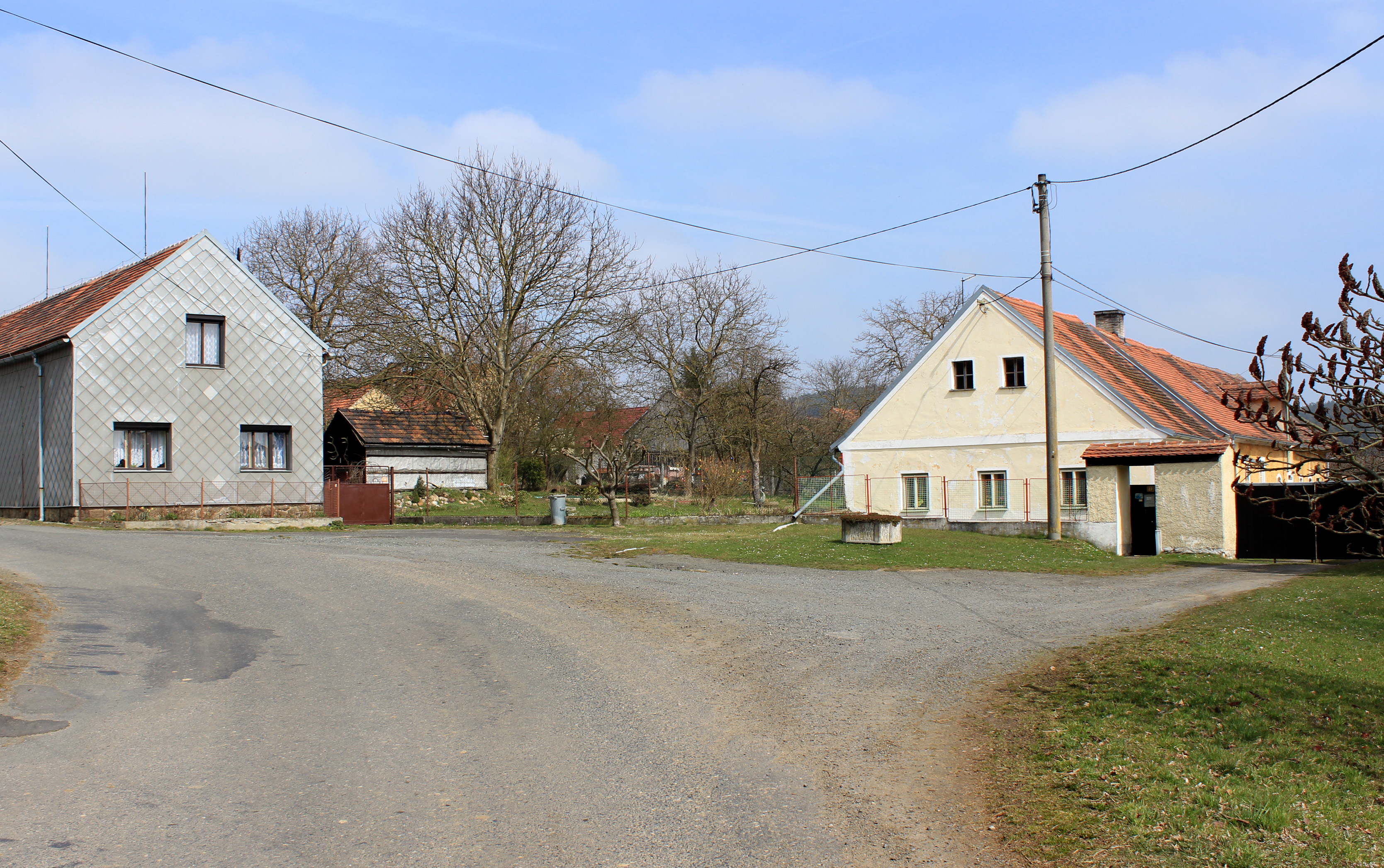 Common in Vidice village, Czech Republic.